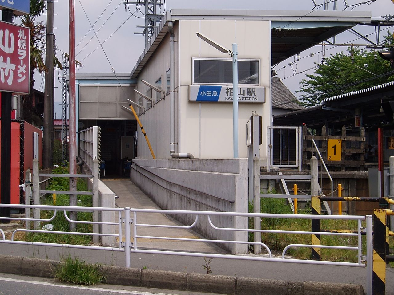 West entrance of Kayama Sta.